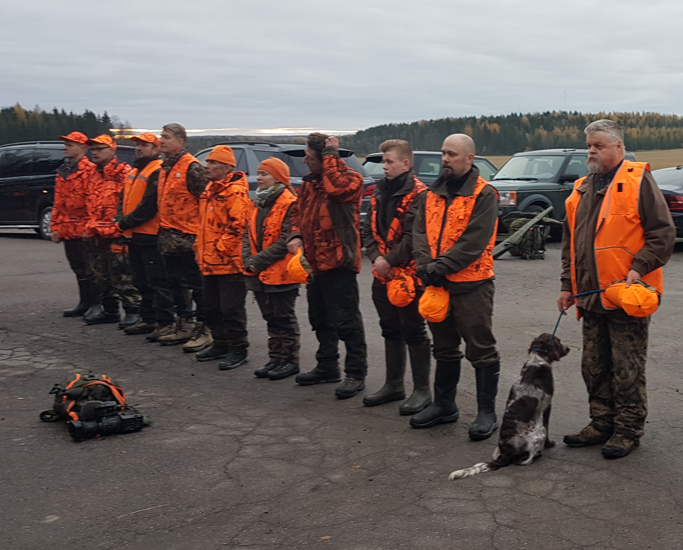 meeting before the driven hunt - Paul Childerley on driven hunt in Finland (cropped)